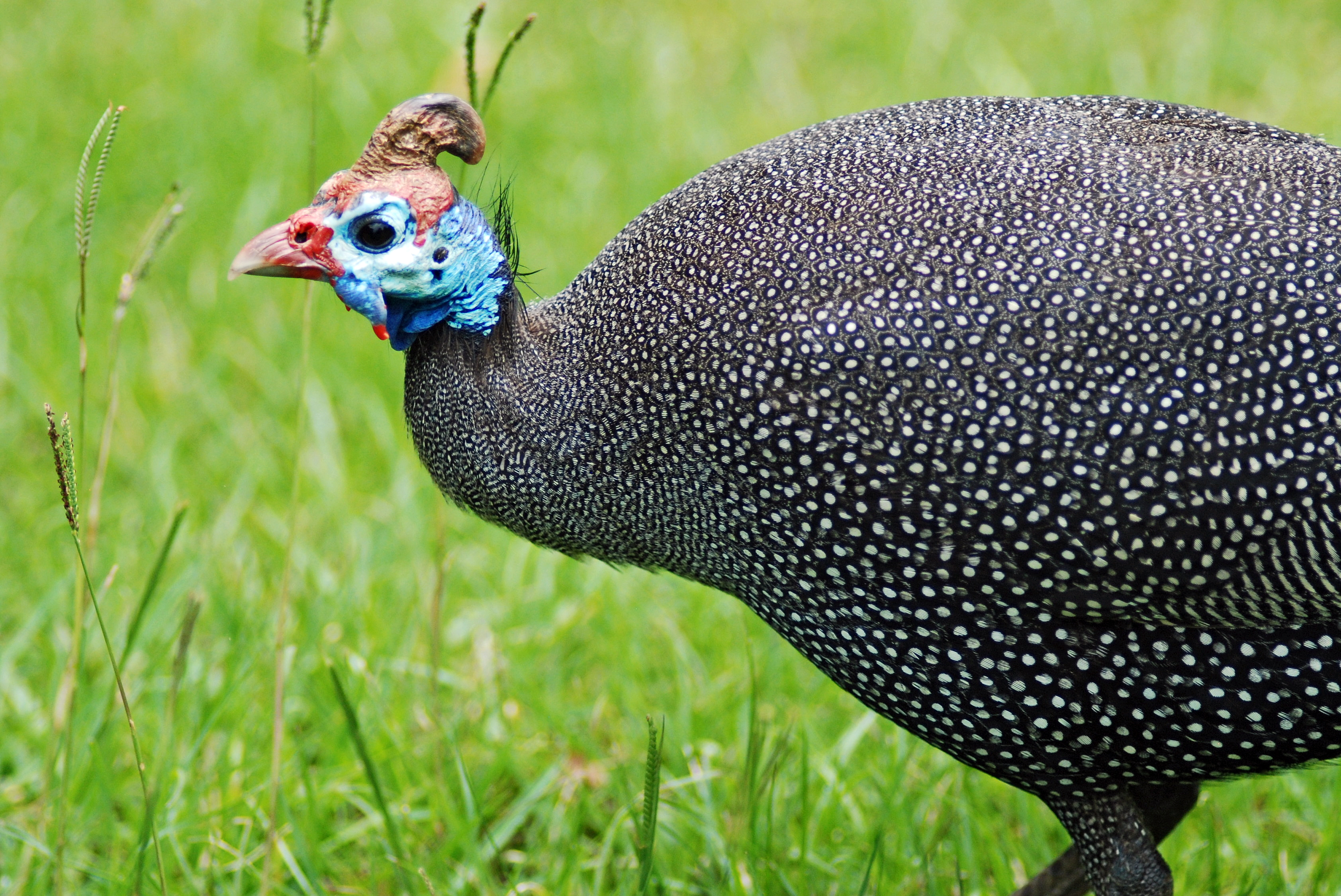 Helmeted Guineafowl in Injasuthi, Drakensberg, KZN, South Africa